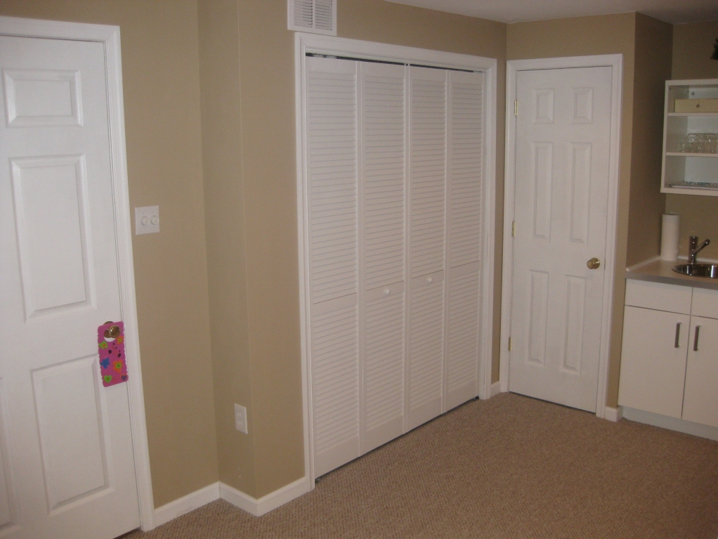 Prioryman describes the basement of the headquarters as "fetid". This is a photo of the fetid basement of the headquarters.